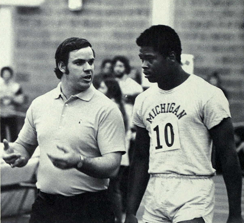 Photograph of University of Michigan track coach Jack Harvey and Russell Davis